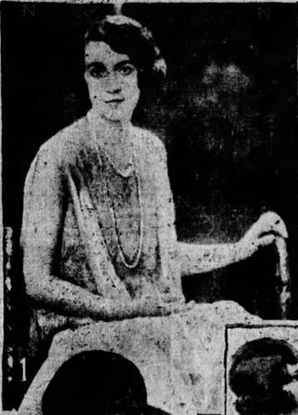 Doris Mary Therese Harcourt